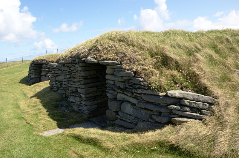 Knap of Howar, Papa Westray, Orkney, Scotland. View from southwest.